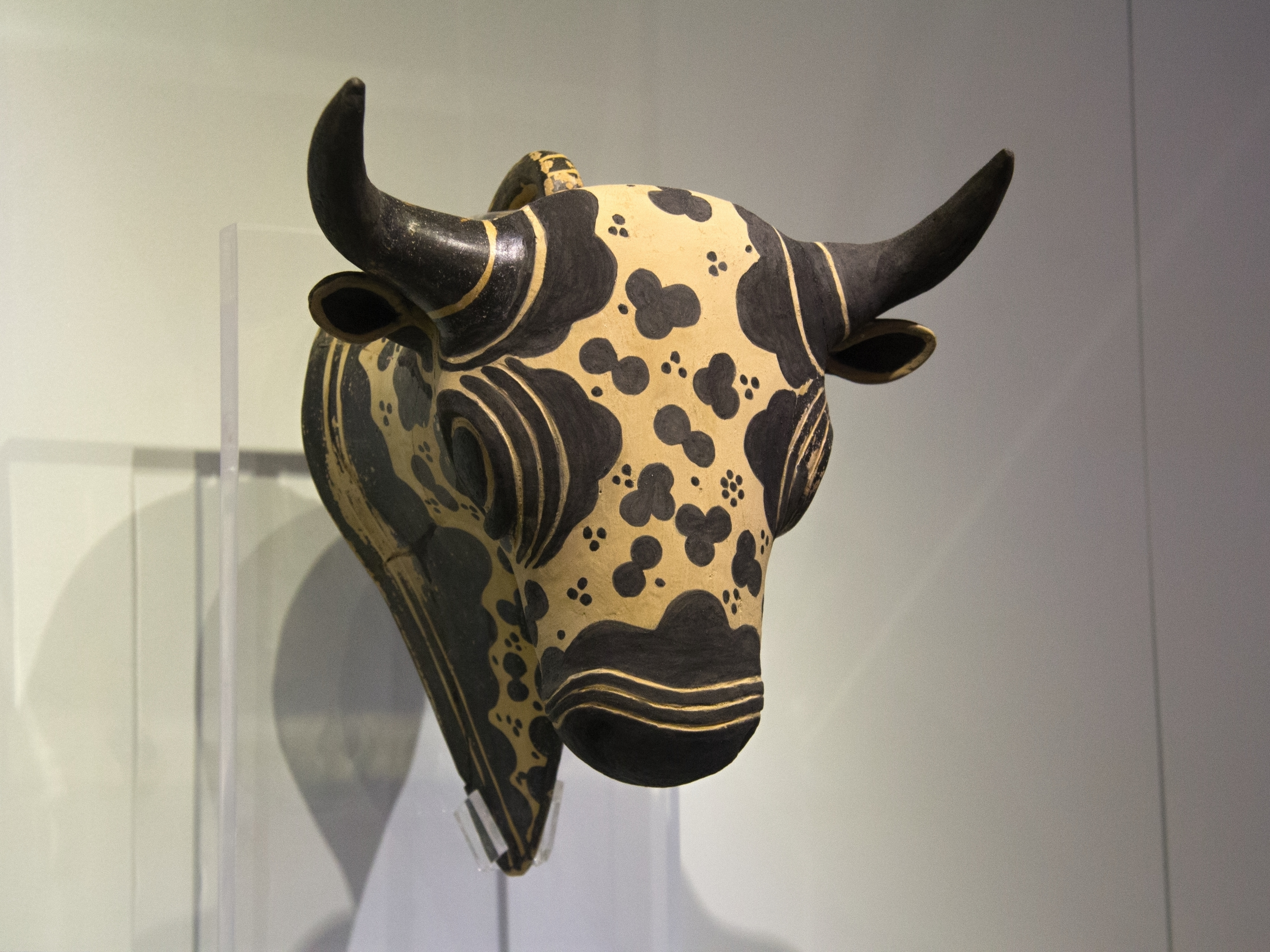 Bull head rhyton. Minoan pottery. Crete, maybe 1500-1450 BC. Archaeological Museum of Heraklion, case 94.